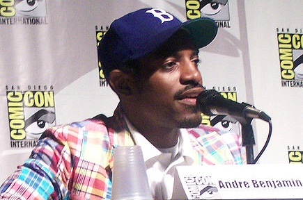 Andre 3000, AKA Andre Benjamin at the 2007 Comic Con in San Diego for Class of 3000.